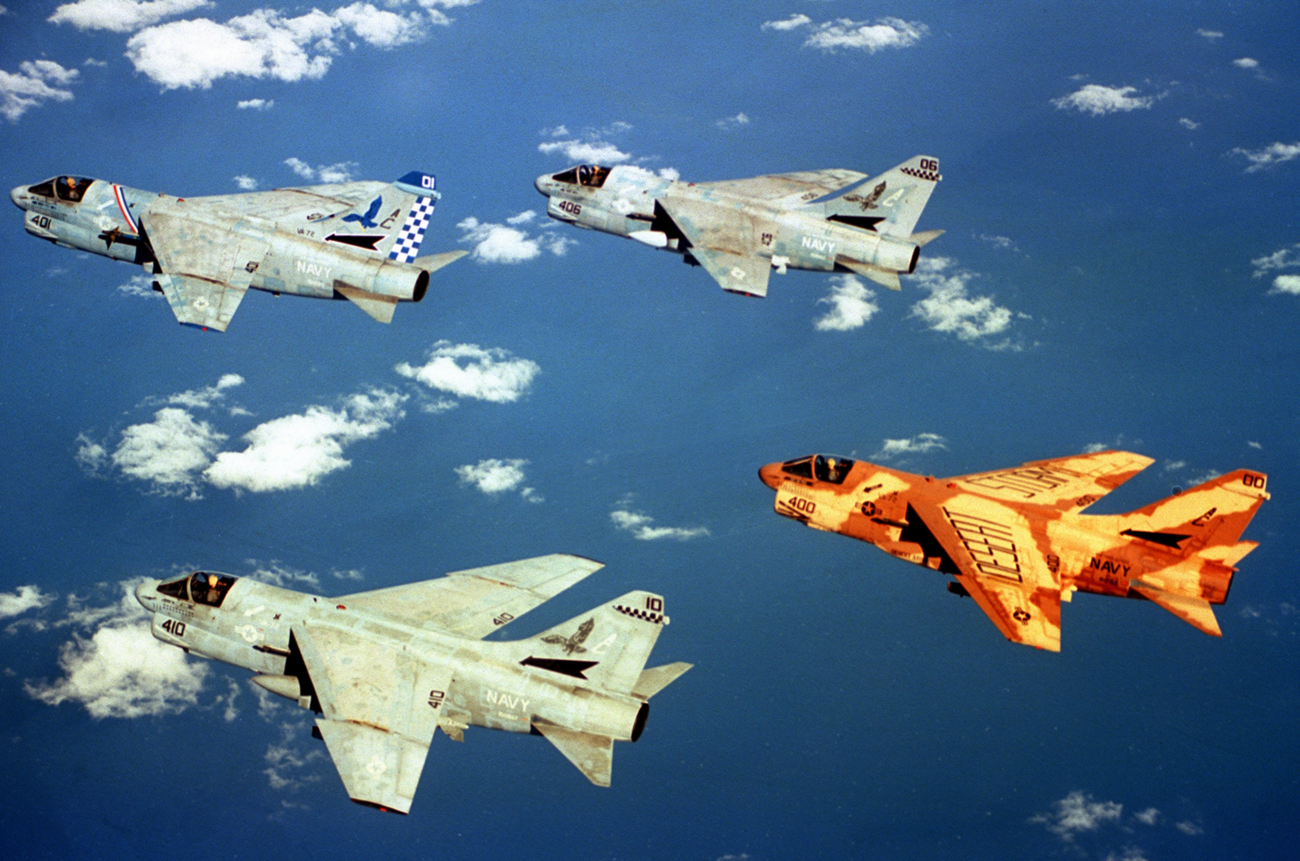 Four U.S. Navy LTV A-7E Corsair II aircraft from attack squadron VA-72 Blue Hawks fly in formation as they return to the United States following deployment in the Persian Gulf area during Operation Desert Storm on 1 June 1991. The Corsair at the rear exhibits a special camouflage paint scheme and sports the name of the war in which it played a role. VA-72 and VA-46 Clansmen were the last U.S. Navy A-7 squadrons and were decommissioned following their return home after twenty years of service in Carrier Air Wing 3 (CVW-3). Both squadrons were last assigned to the aircraft carrier USS John F. Kennedy (CV-67) and were decommissioned on 30 June 1991.